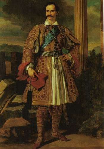 Portrait of Otto of Greece (1815-1867)